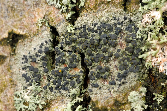 Amandinea punctata from Commanster, Belgium. If you think this is a different taxon, please contact James Lindsey.